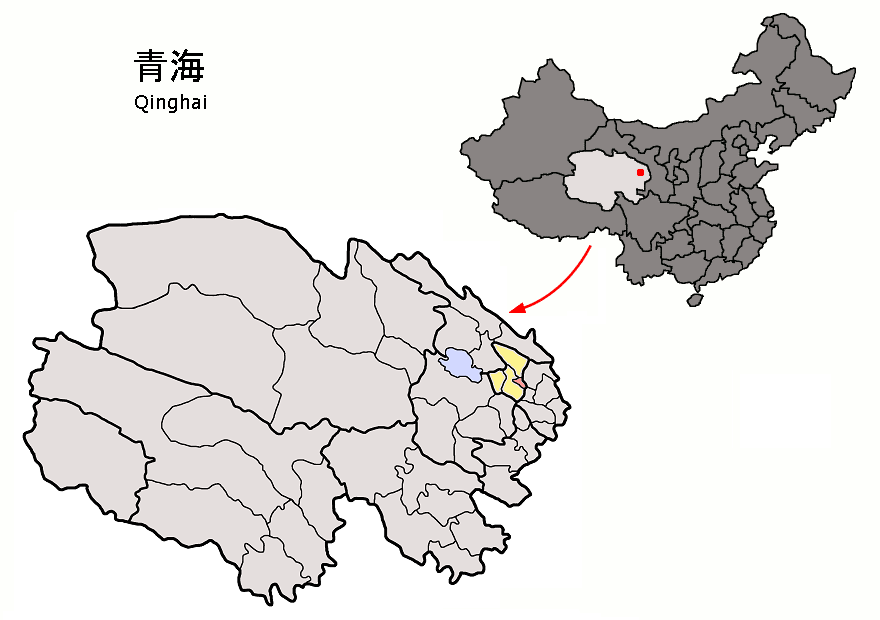 Location of the 4 Xining Districts (pink) and Xining Prefecture (yellow) within Qinghai province of China Map drawn in september 2007 using various sources, mainly : Qinghai province administrative regions GIS data: 1:1M, County level, 1990 Qinghai Counties map from "Plateau Perspectives" (the limits of some county-level subdivisions may not be accurate)